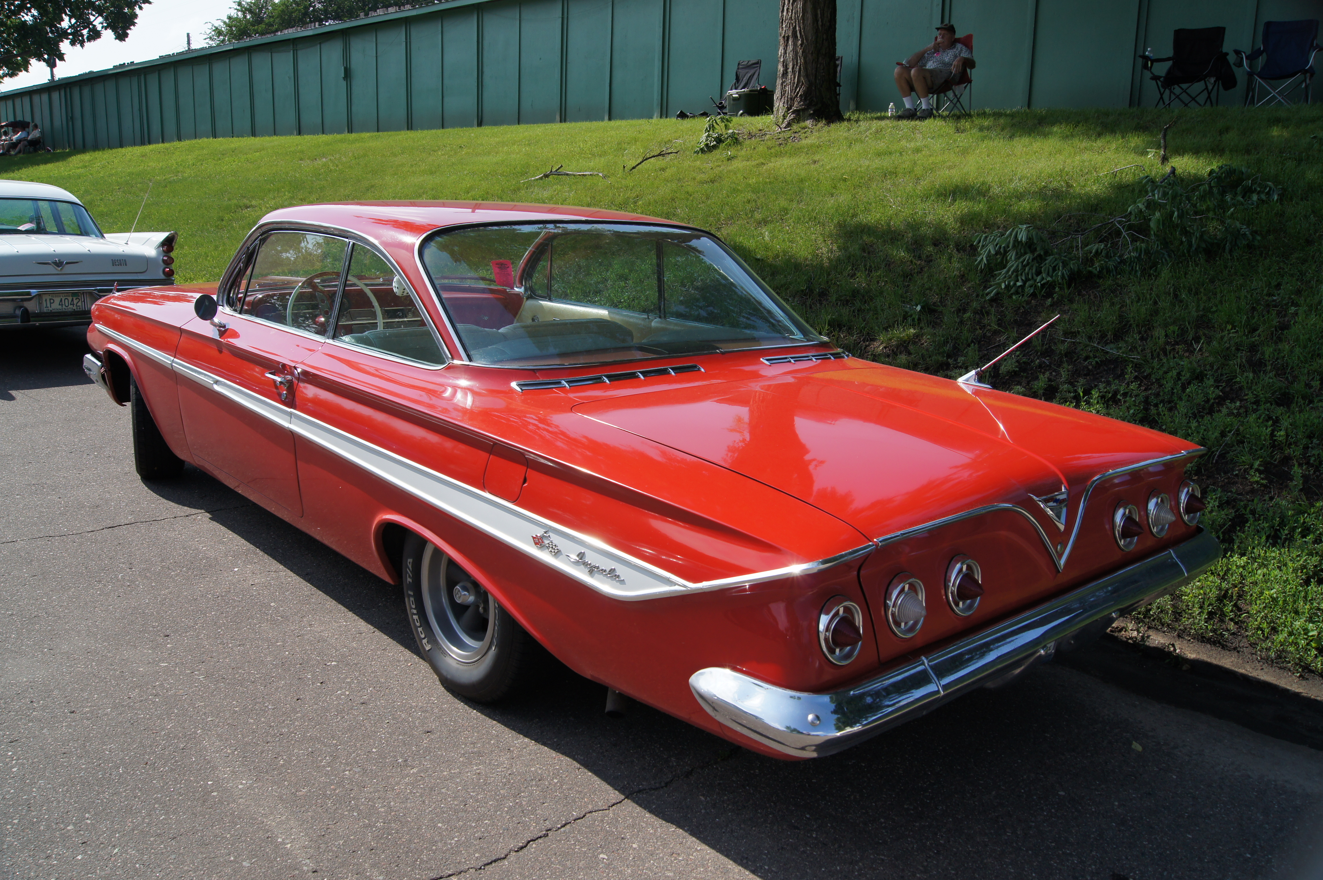 MSRA “BACK TO THE 50′s” 40th ANNIVERSARY June 21-23, 2013 State Fairgrounds St. Paul Minnesota More Car Pictures